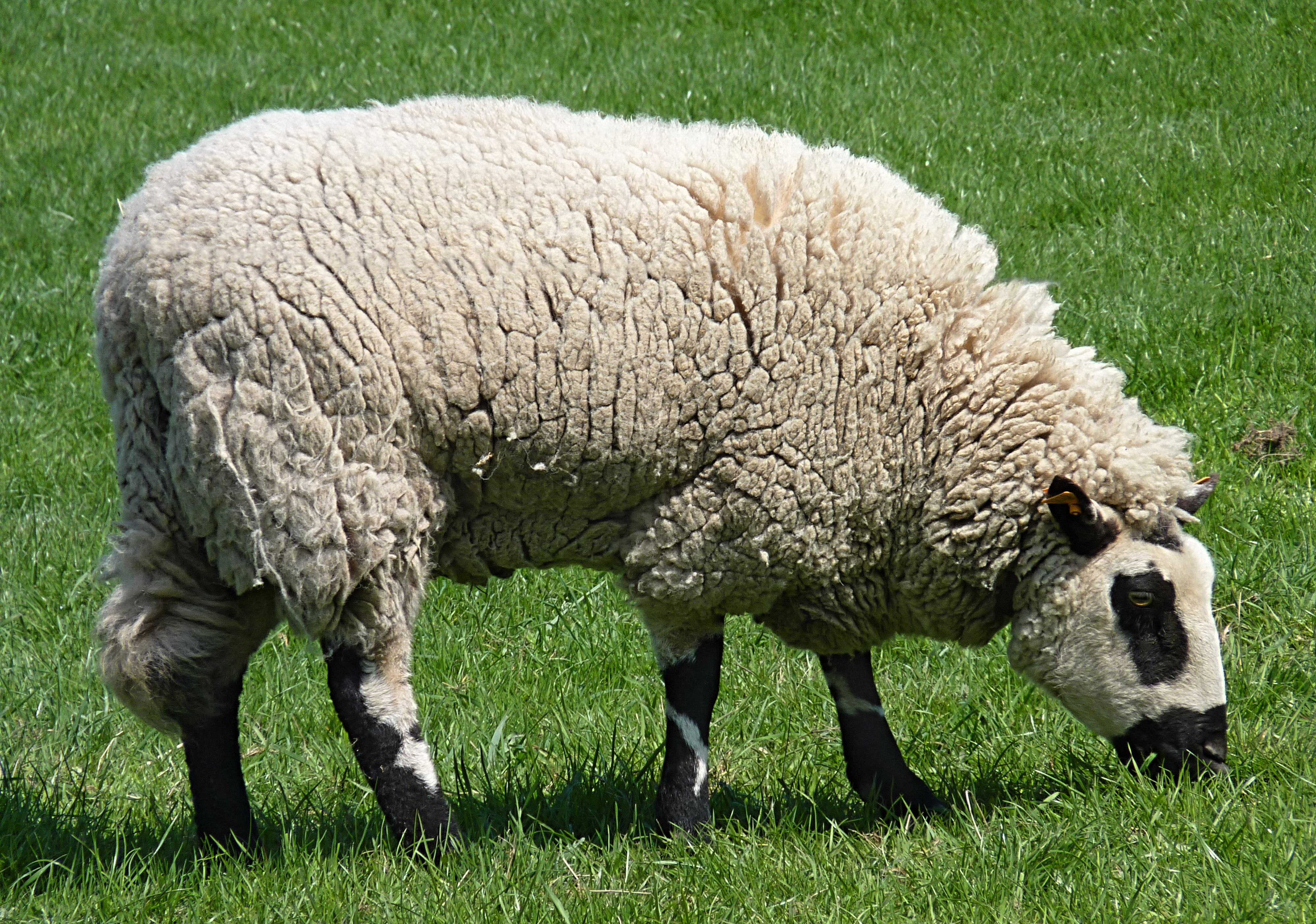 Kerry Hill sheep in Mouscron, Belgium.